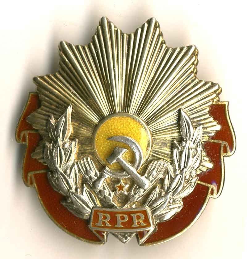 Order of Labor, 1st class, Romanian People's Republic (till 1965)